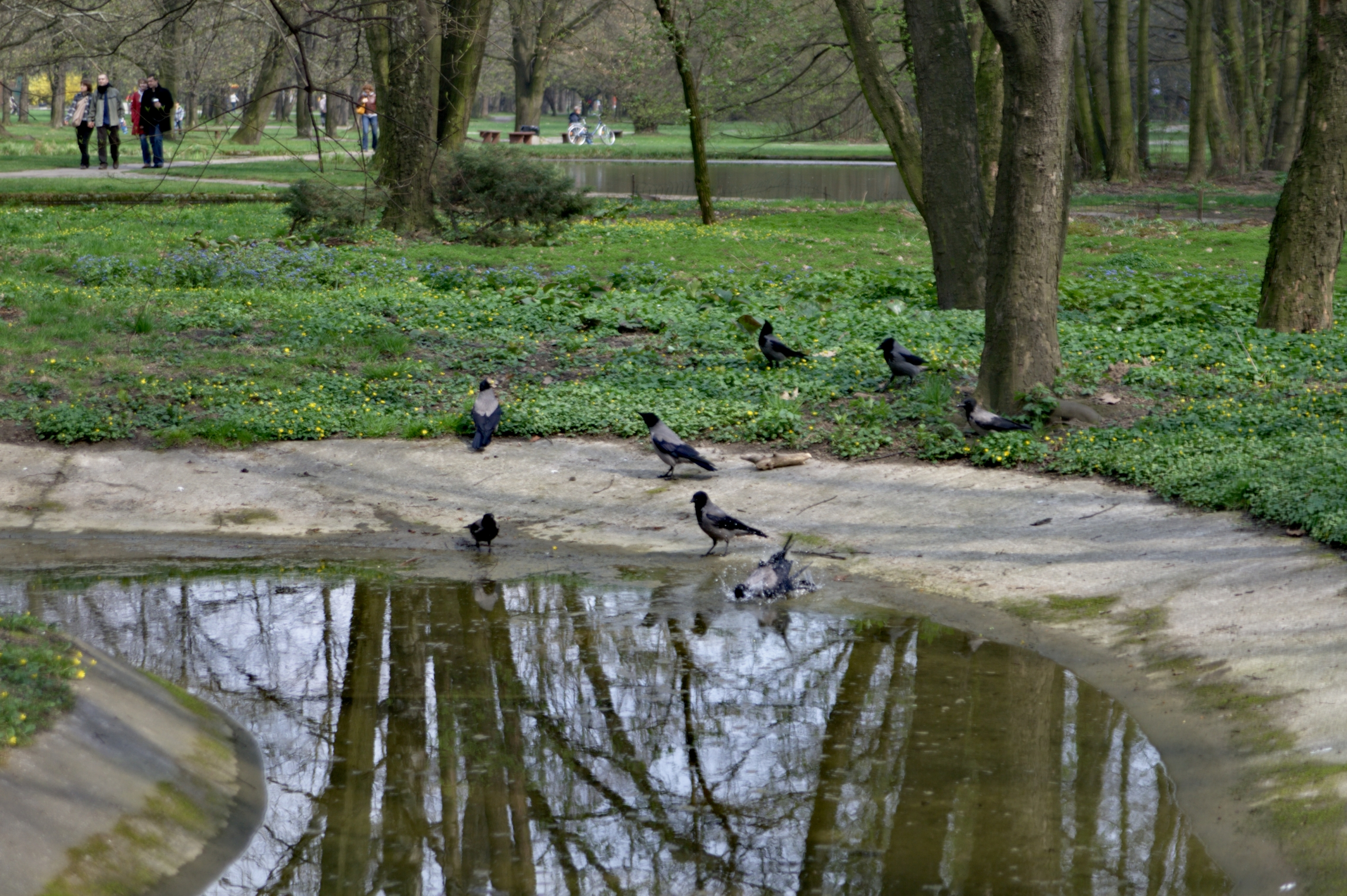 Pole Mokotowskie. Kąpiel wron (dun crow is bathing)